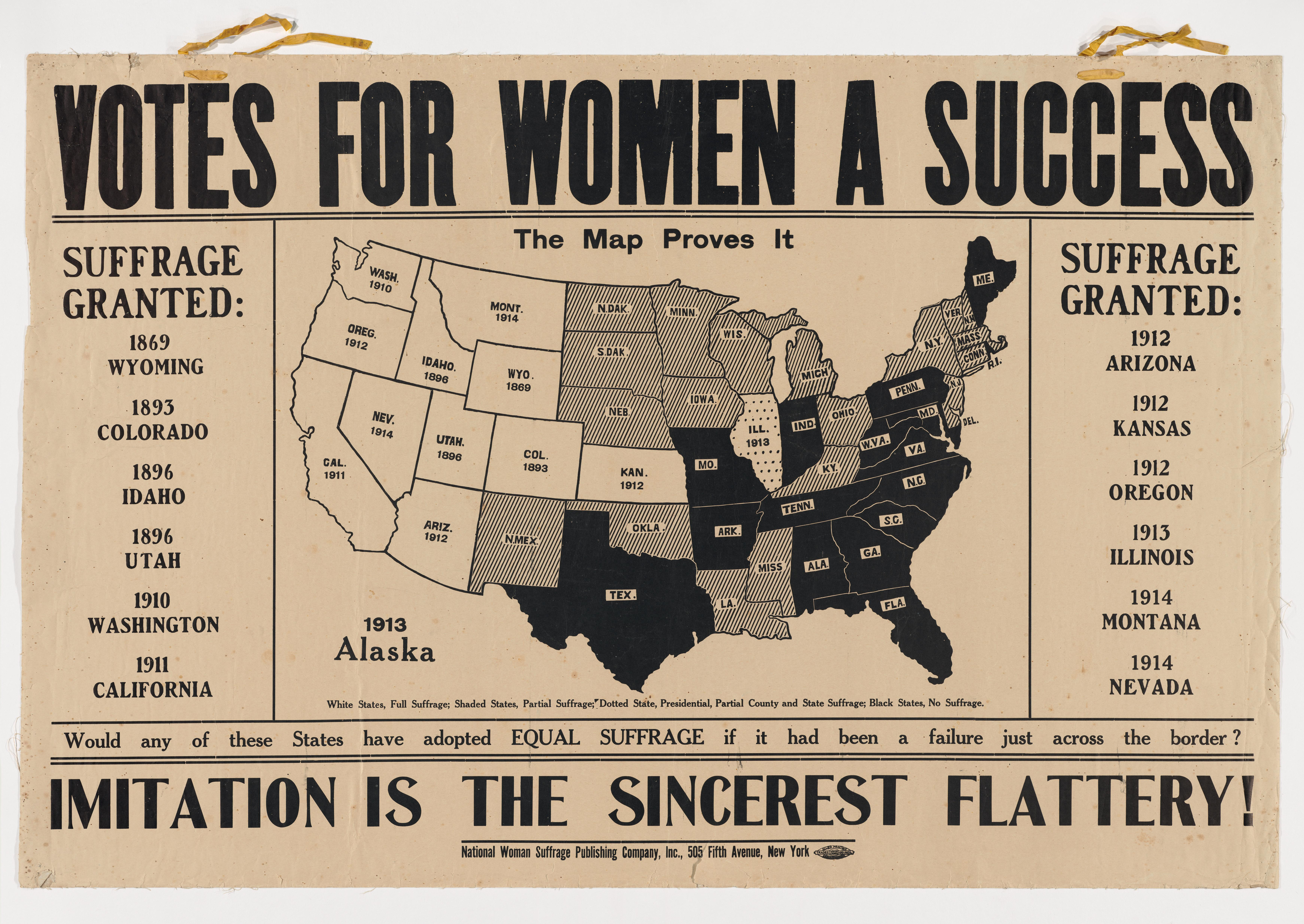 Votes for Women A Success. Imitation is the Sincerest Flattery!! Date: ca. 1914 Catalog Record: Questions?